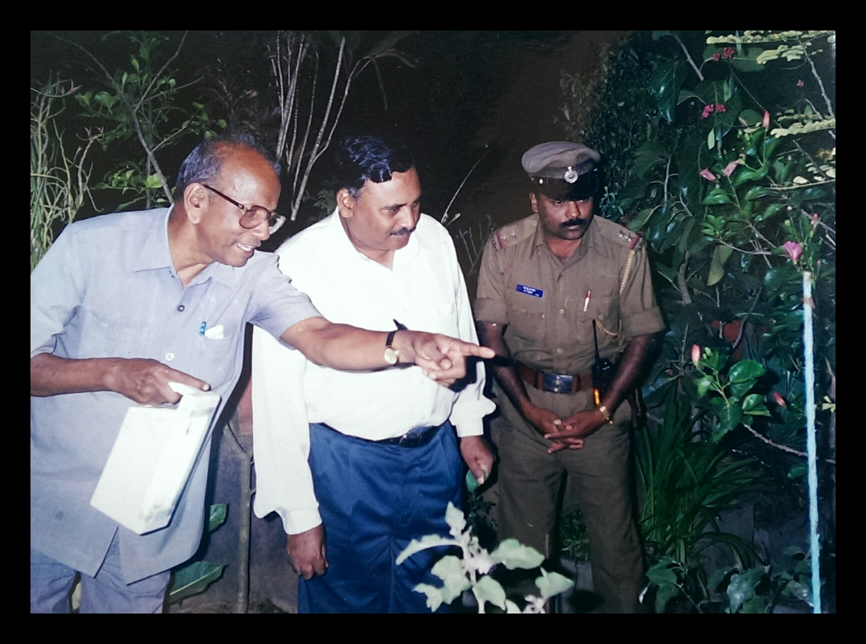 V.V.Shenoy with DG & IGP OmPrakash at Panchavati Terrace Garden. Mr. Shenoy is showing around the garden the the Guest.